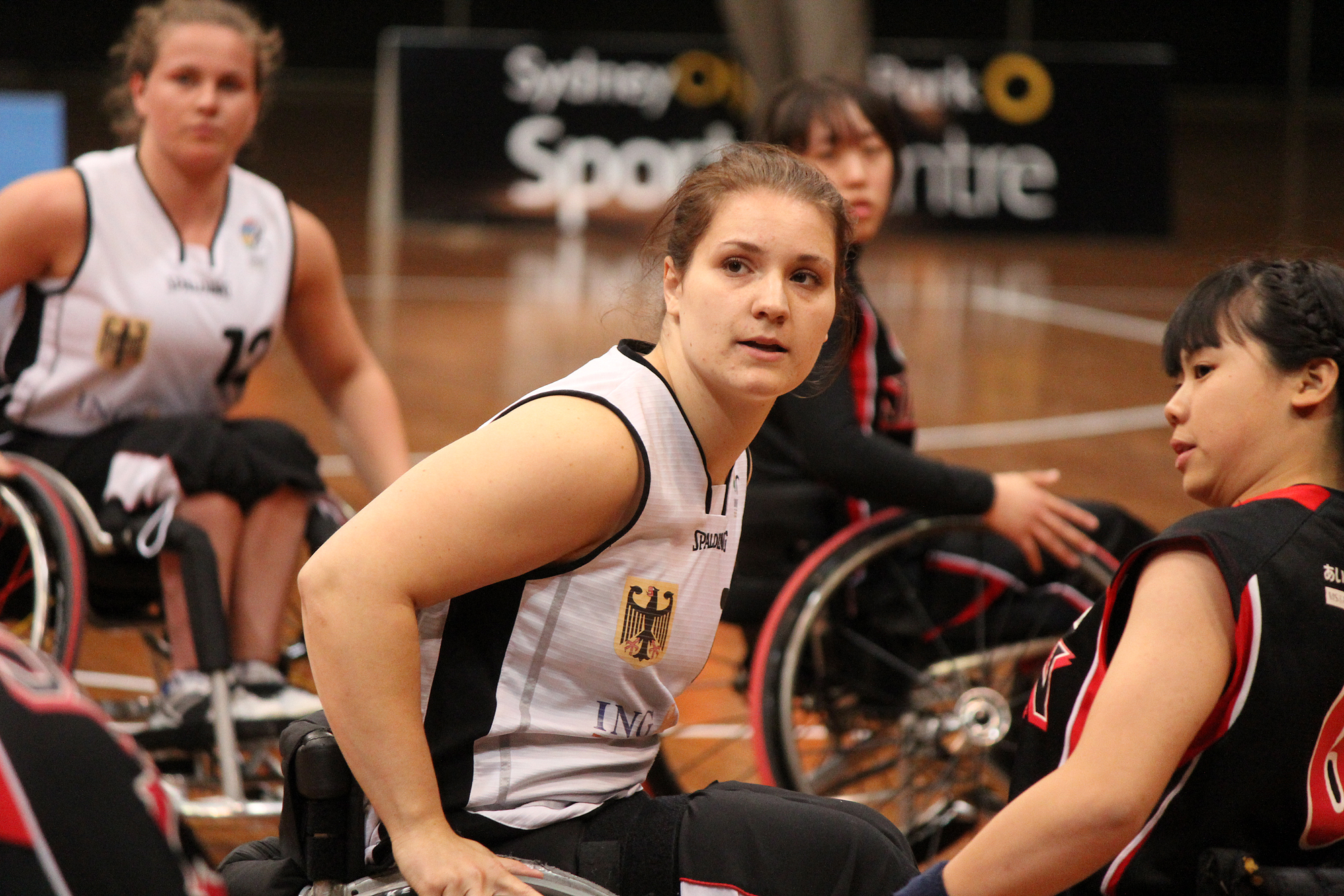 Germany vs Japan women's wheelchair basketball team at the Sports Centre.